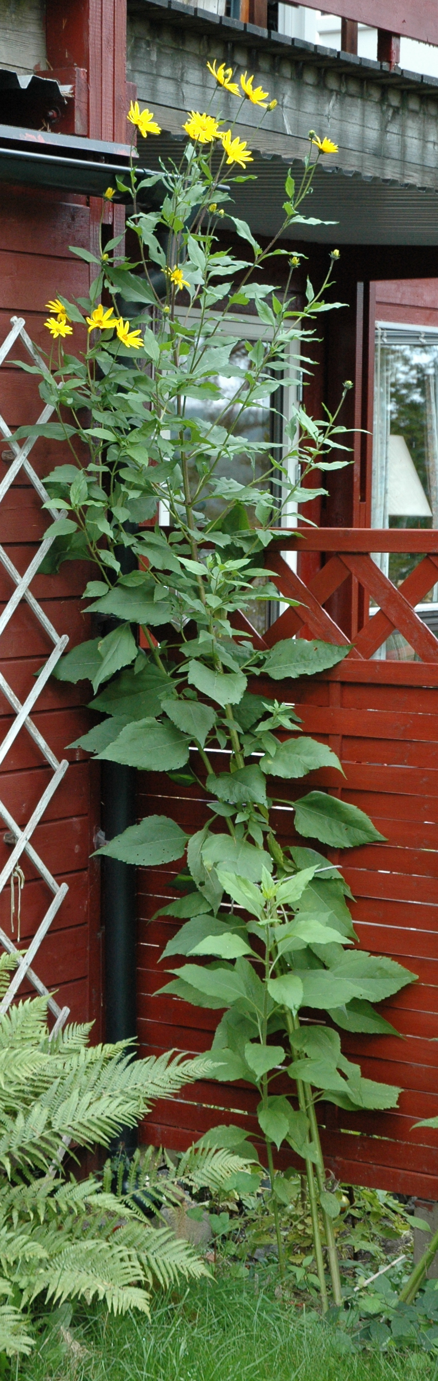 A Helianthus tuberosus, more than 250 cm high. My own photo, Kjetil Lenes